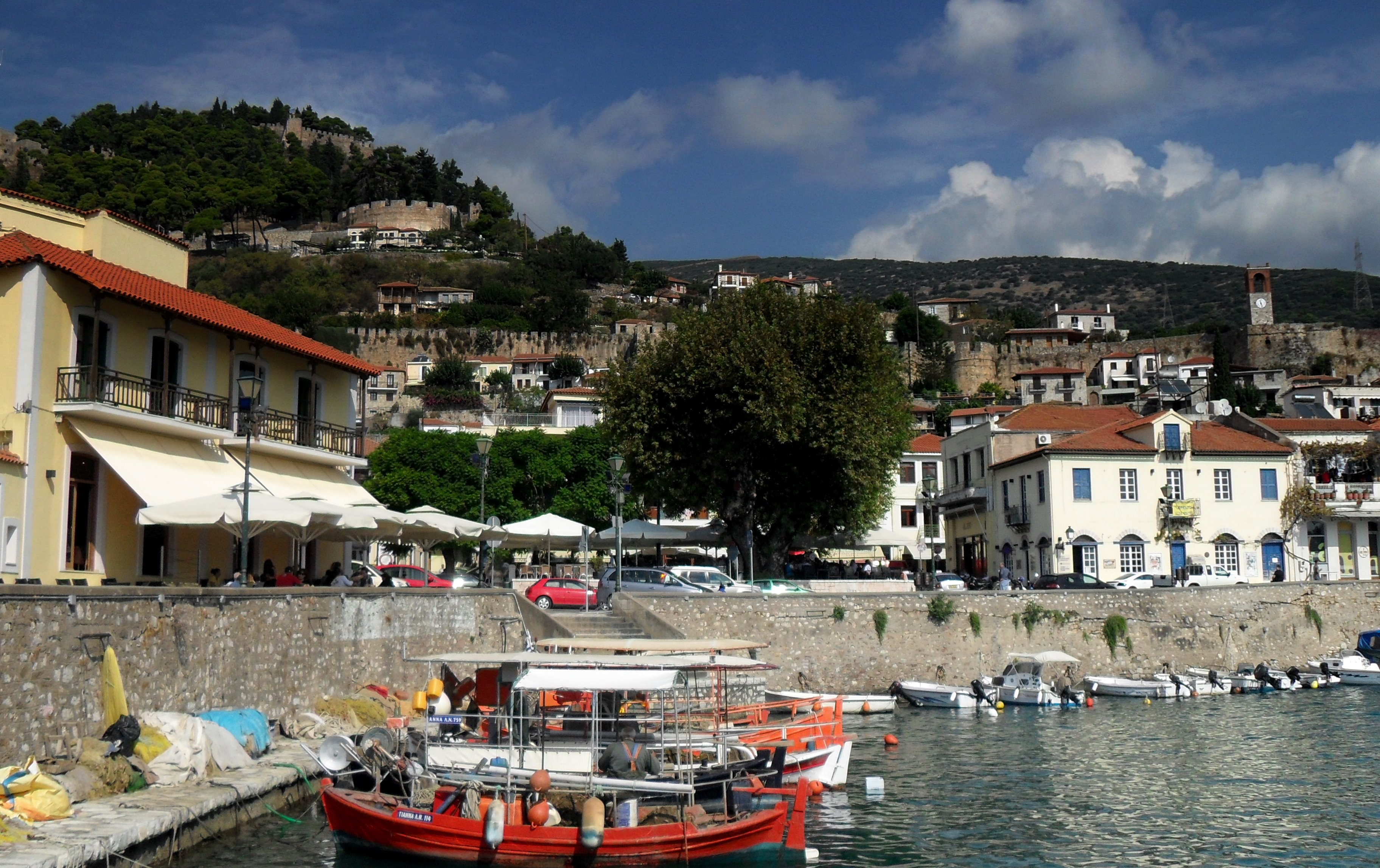 Nafpaktos, view from the port, towards the castle